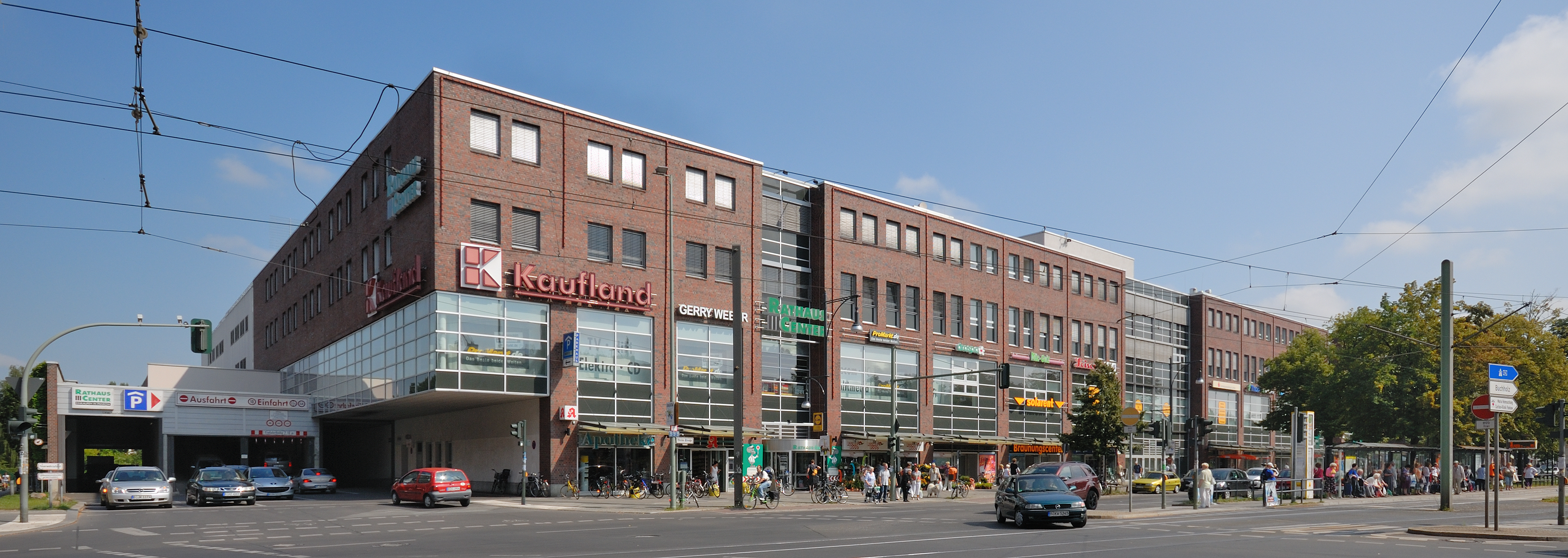 Rathaus-Center Pankow, a shopping mall with about 23,500 sqm and a multi-story car park for 840 cars. Construction costs were about EUR 115 million.